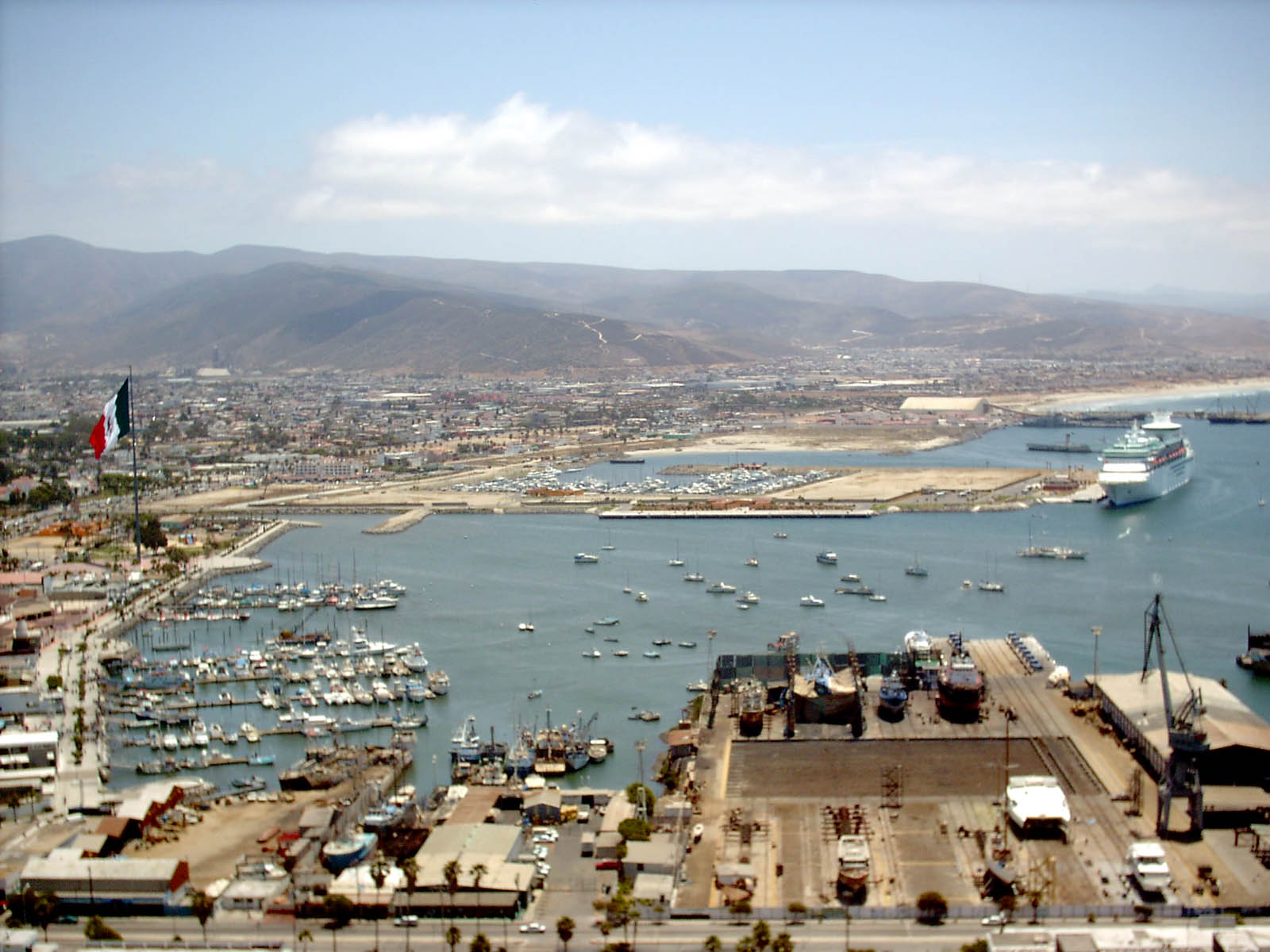 The Port of Ensenada, Baja California Mexico features Space for Pleasure Crafts (Yachts), Commercial Fishing, Cruiseport, Warf, Container Terminal and probably more. There have been Boat races in the Port and it is also the terminal for some sailing regatta (for example New Port-Ensenada Regatta) races. Taken by me from the publicly accessible Viepoint on the 23rd of May 2004 at about 12:30 pm